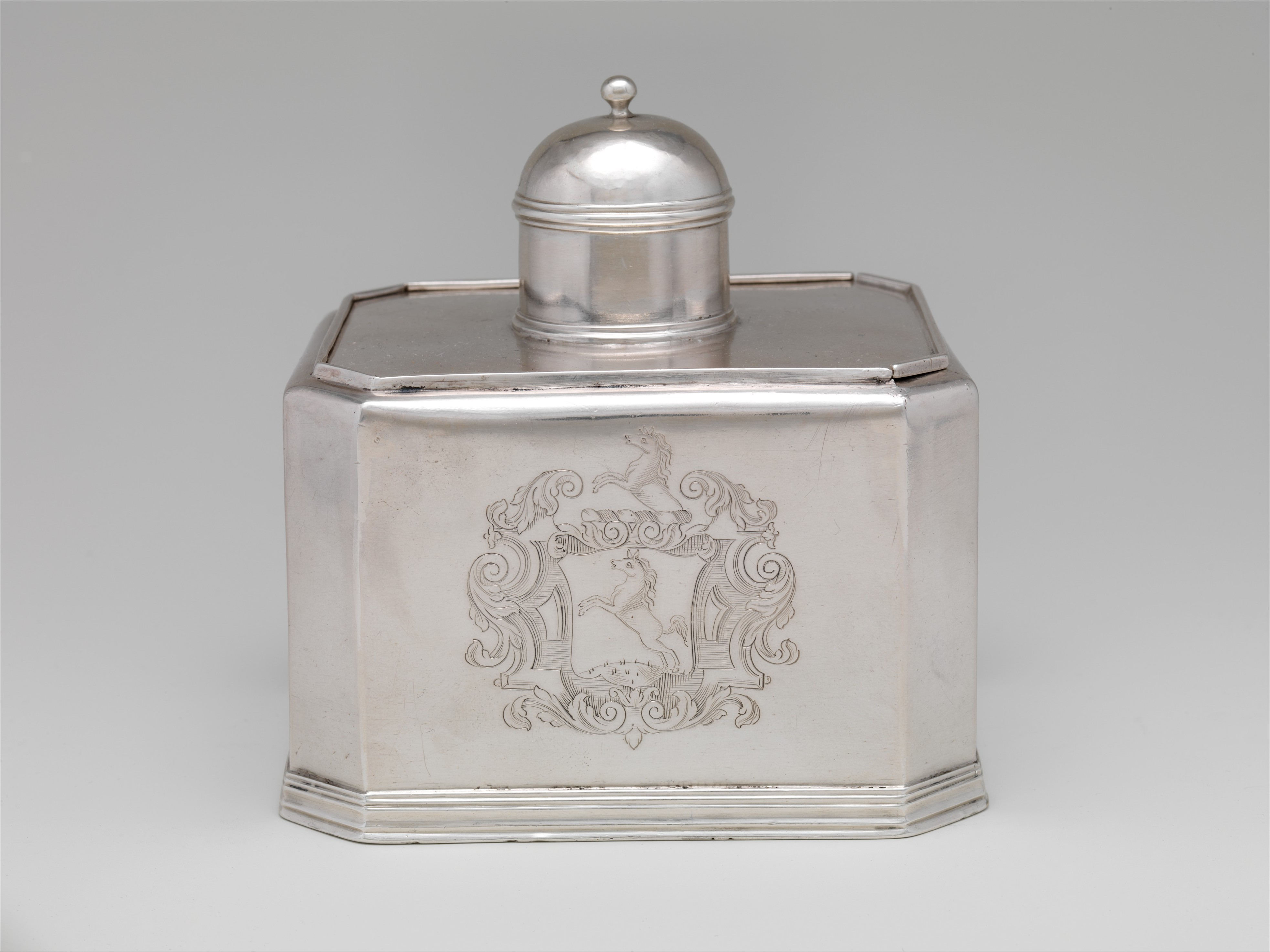 American; Sugar Box; Silver